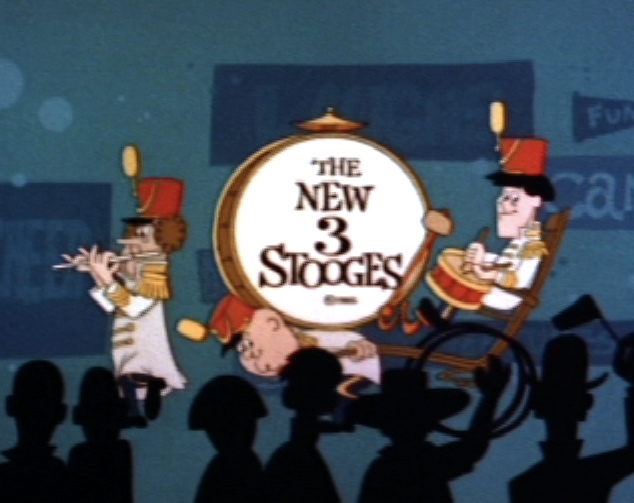 Screenshot of copyright notice that doesn't contain a claimant.